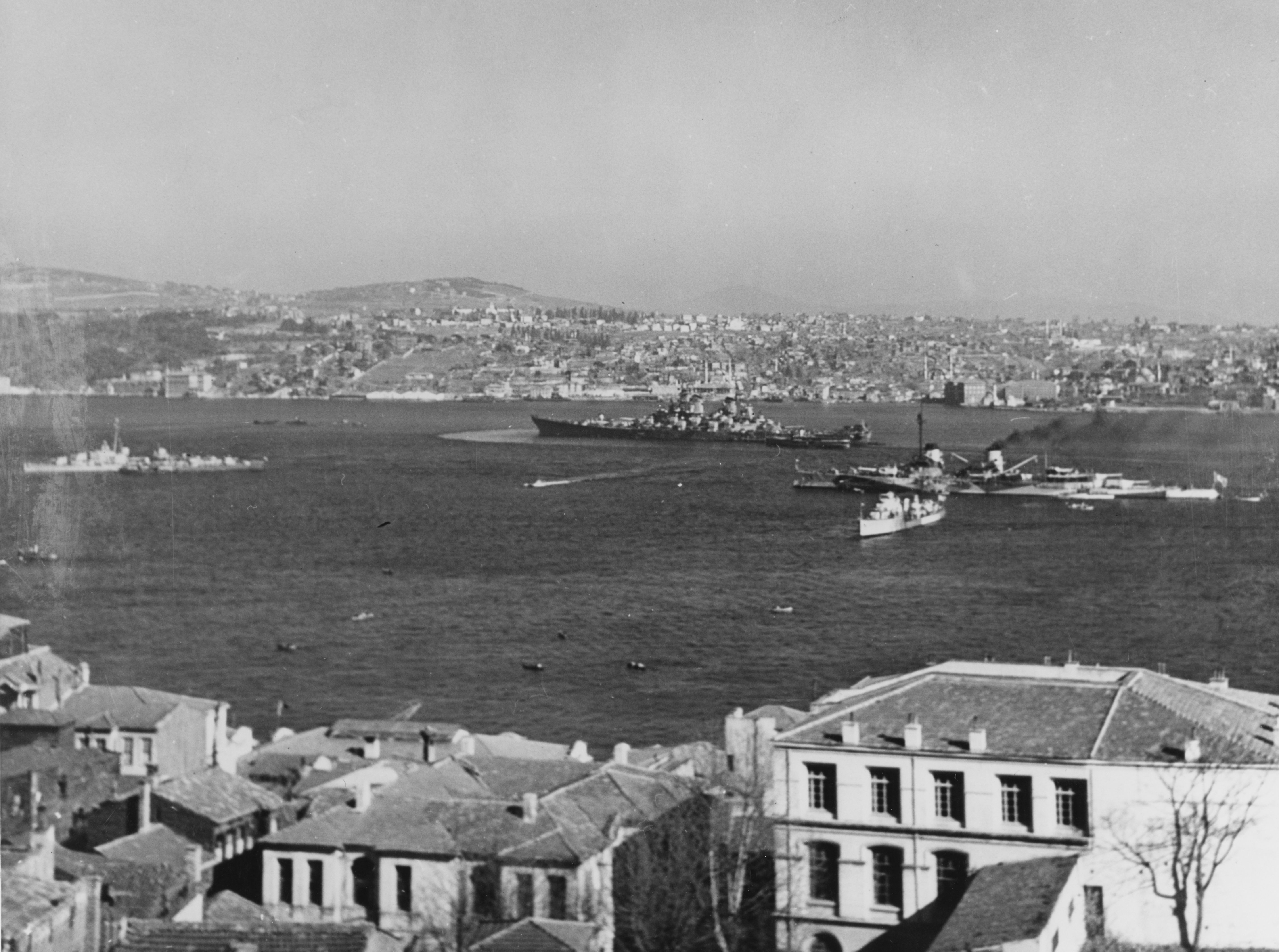 The U.S. Navy battleship USS Missouri (BB-63) off Istanbul, Turkey, on 5 April 1946. She had brought home for burial the body of the late Turkish Ambassador to the United States, Mehmet Munir Ertegun. This visit also was aimed at influencing Russian Middle East policy. The destroyer USS Power (DD-839) is at left, At right is the Turkish battlecruiser TCG Yavuz (B-70).